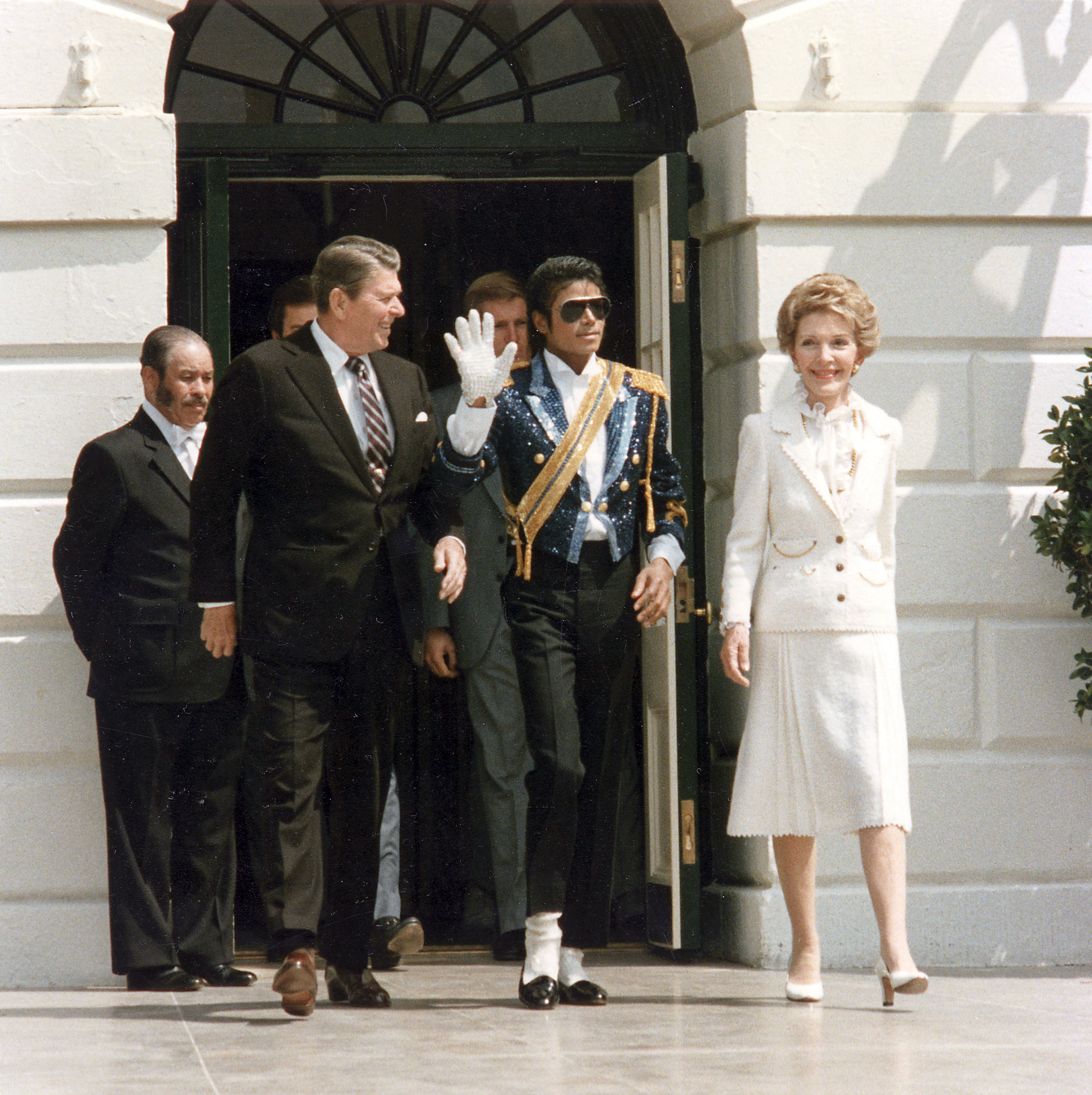 President Ronald Reagan, first lady Nancy Reagan and pop singer Michael Jackson at the White House ceremony to launch the campaign against drunk driving.